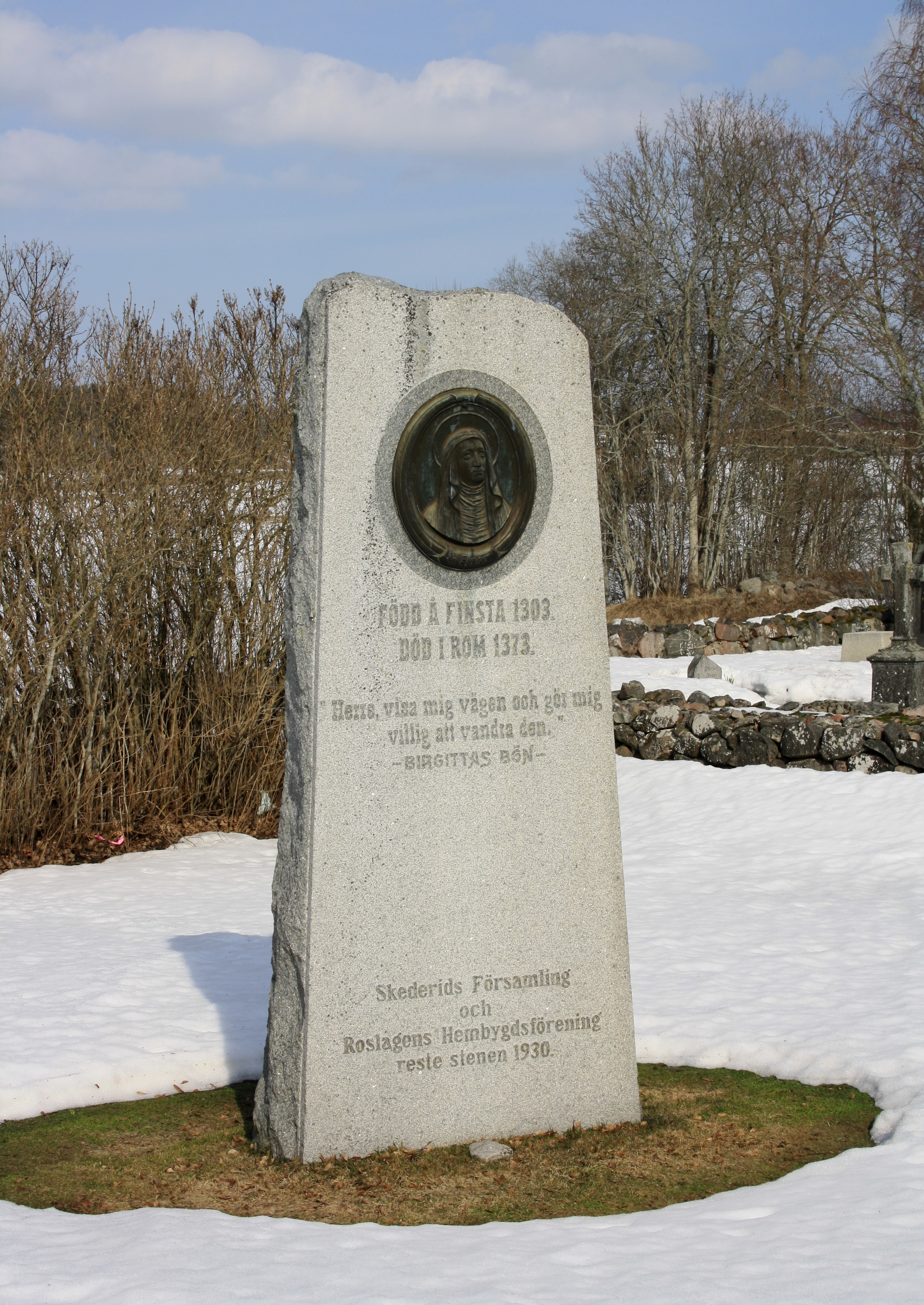 Memory over over the saint Bridget of Sweden (Saint Birgitta), at the church Skederid, Finsta, Uppland, Sweden